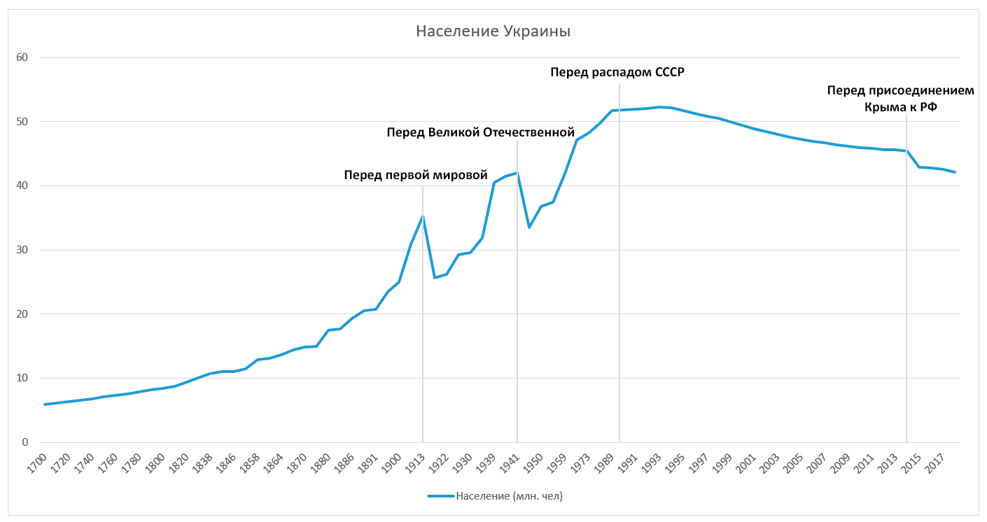 Population of Ukraine 1700-2018